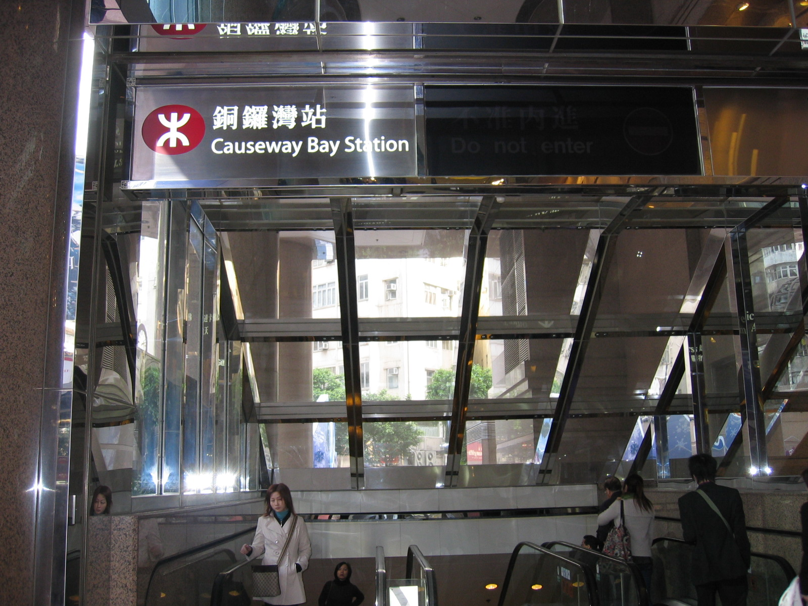 Exit A (Times Square) of Causeway Bay MTR station.